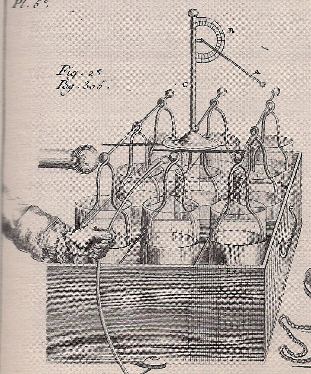 An assembly of Leyden jars to form an electric battery